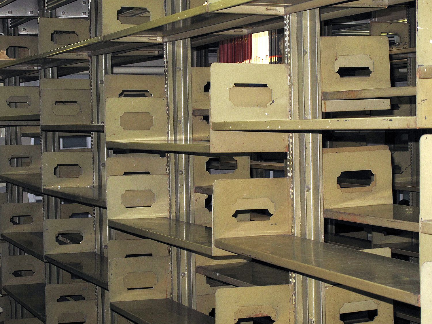 Shelving